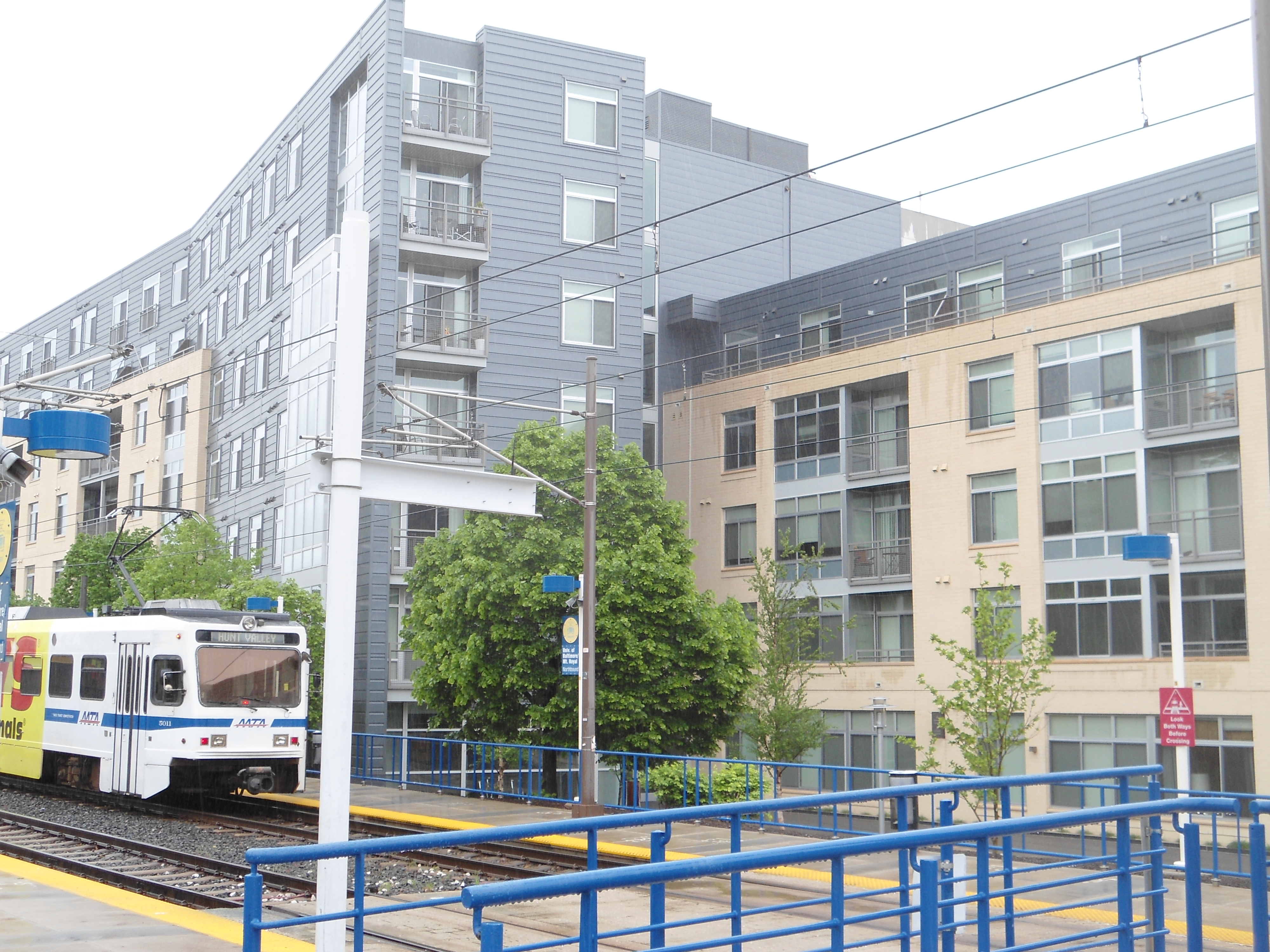 A train on Baltimore Light Rail's blue line at the University of Baltimore stop. In the background is the Fitzgerald building, one of two new student housing centers at the university.